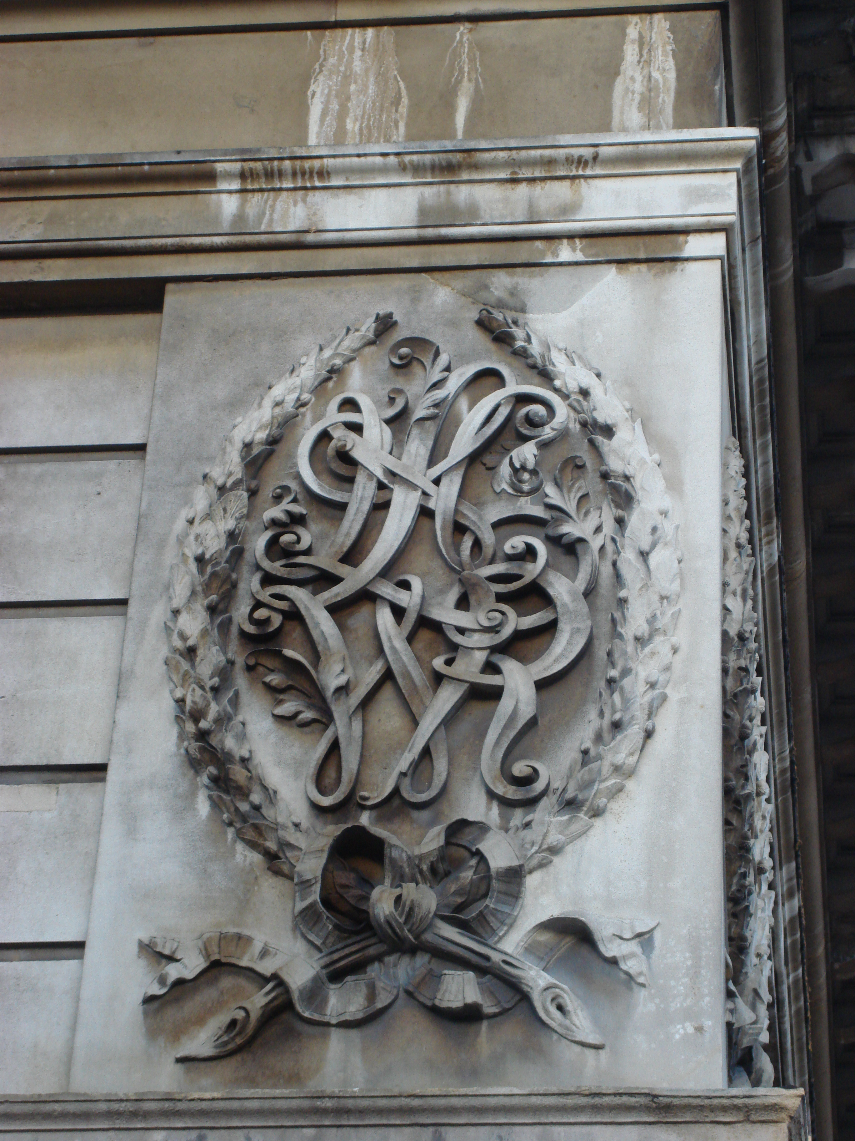 London and North Western Railway Portland stone entrance lodge, Euston station, London, UK